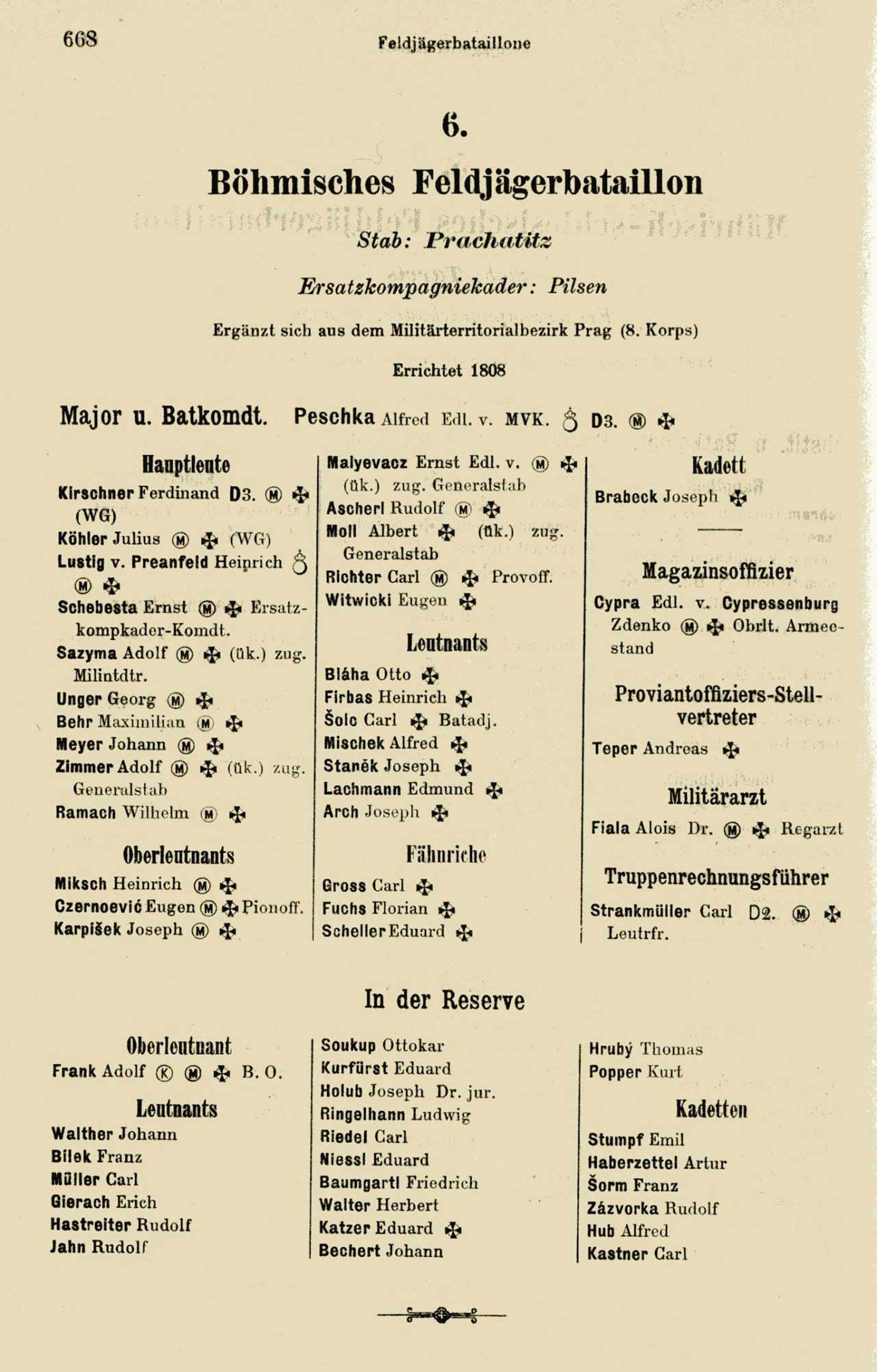 Officers list of 1909 of the Austria-Hungarian Rifles Battalion No. 6